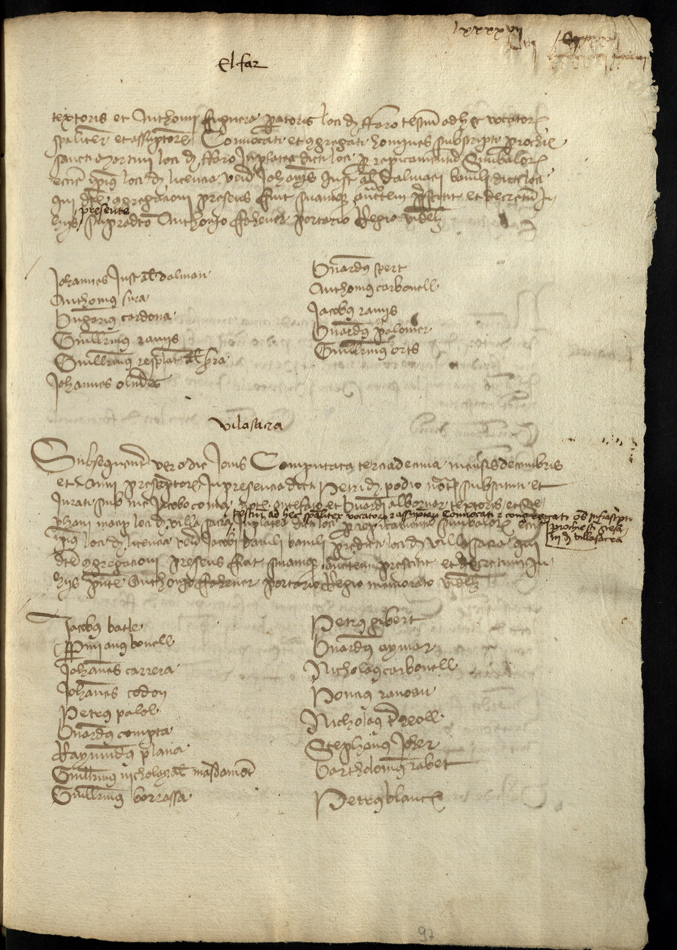 The Llibre del Sindicat Remença (Peasant Syndicate Book) is a handwritten record in Latin between 1448 and 1449 containing the proceedings of meetings between serfs (remences) in various Catalan dioceses to select the syndics, who were entrusted with negotiating the abolition of serfdom with the monarchy due to seigneurial abuses. The 1448 Peasant Syndicate was a precedent that expressed the will of serfs from a wide area, which makes it exceptional.